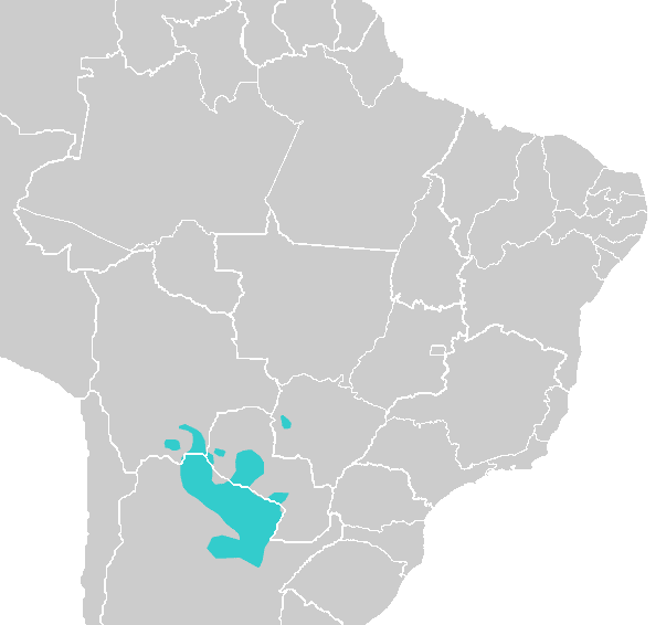 Extension of Modern Mataco-Guaicurú Languages, source: Ethnologue maps.